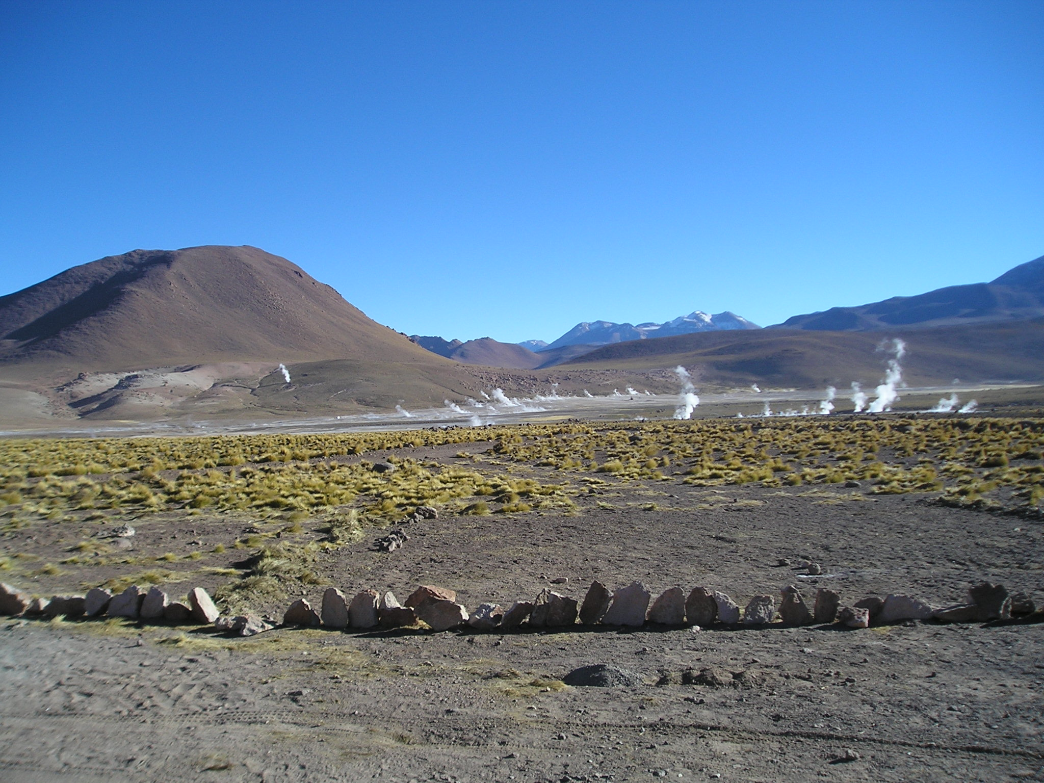 El Tatio geysers at Chilean Altiplano, about 100 km north of San Pedro de Atacama